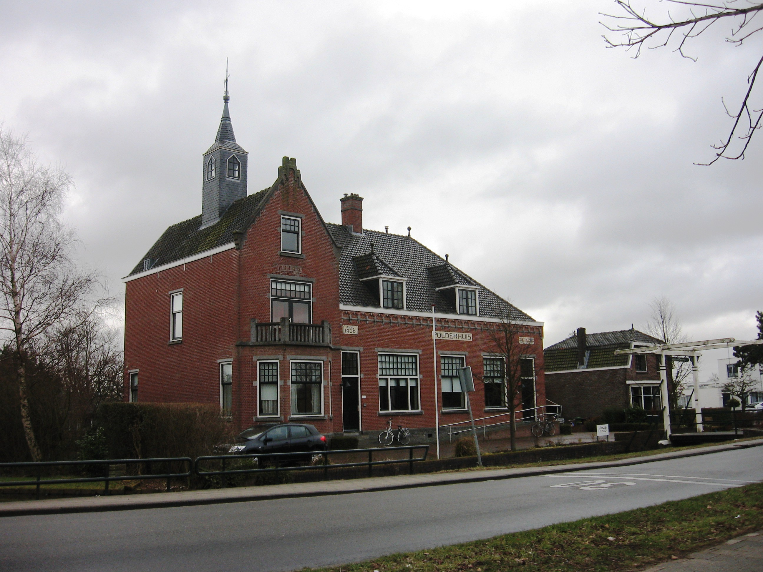 Bergschenhoek - Polderhuis, rijksmonument